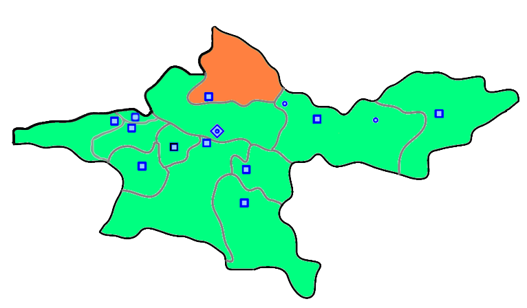 Shemiranat county of the Tehran Province in Iran. Taken from: and edited by Mani Parsa.